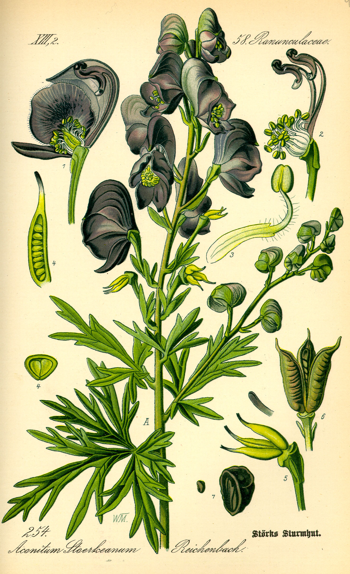 Wolfsbane or monkshood (Aconitum napellus), a member of the buttercup family (Ranunculaceae). Original inscription: XIII, 2., 58. Ranunculaceae, 254. Aconitum Stoerkeanum Reichenbach. Störks Sturmhut.